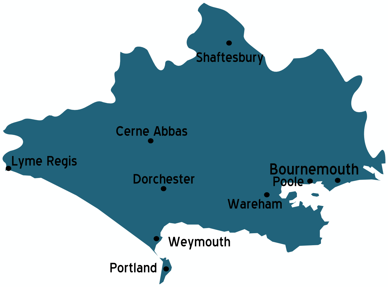 Map of Dorset Source: :Image:UK map.svg map: England Map of: England